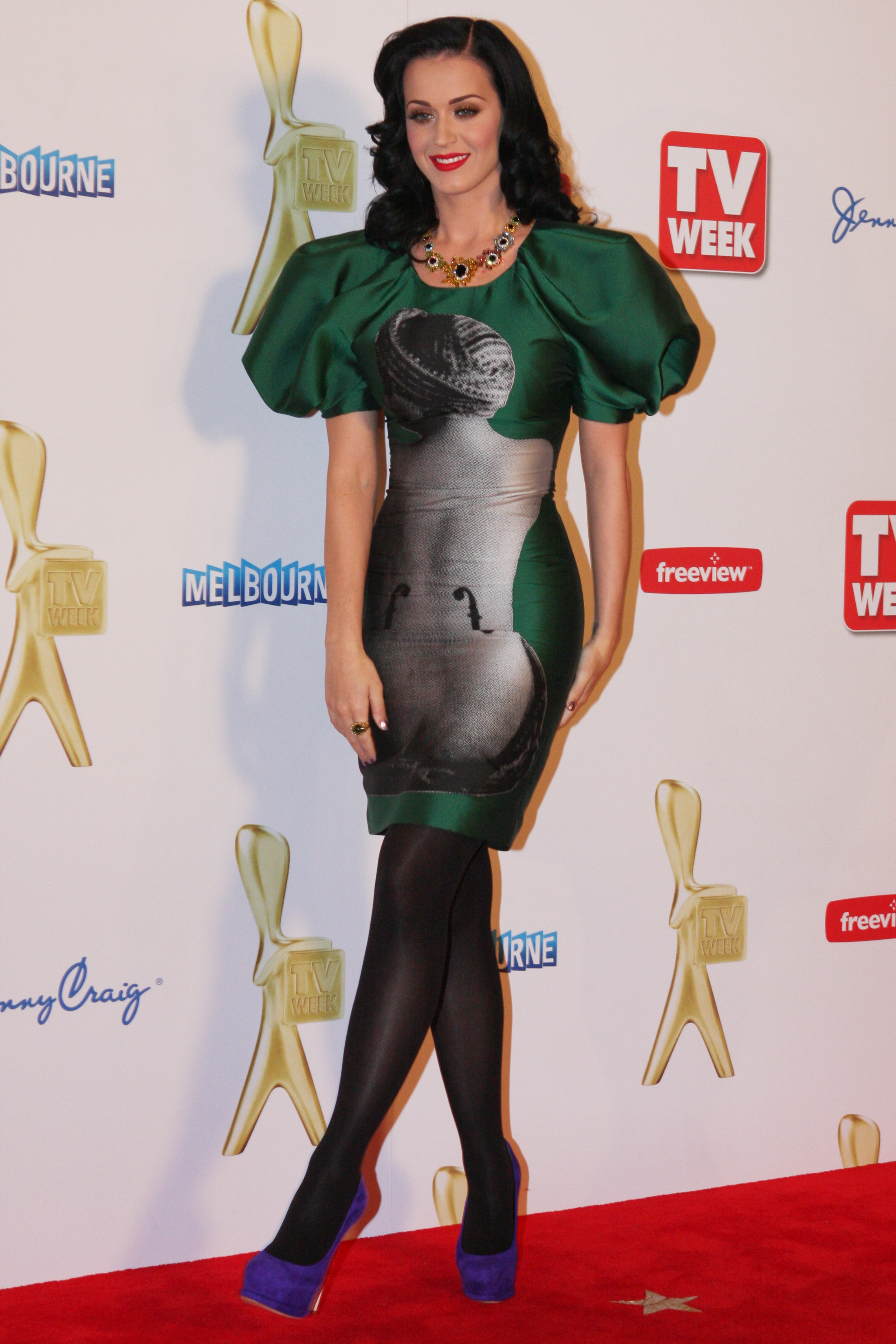 American pop singer-songwriter Katy Perry at TV Week Logie Awards 2011 in Melbourne, Victoria, Australia (May 1, 2011).